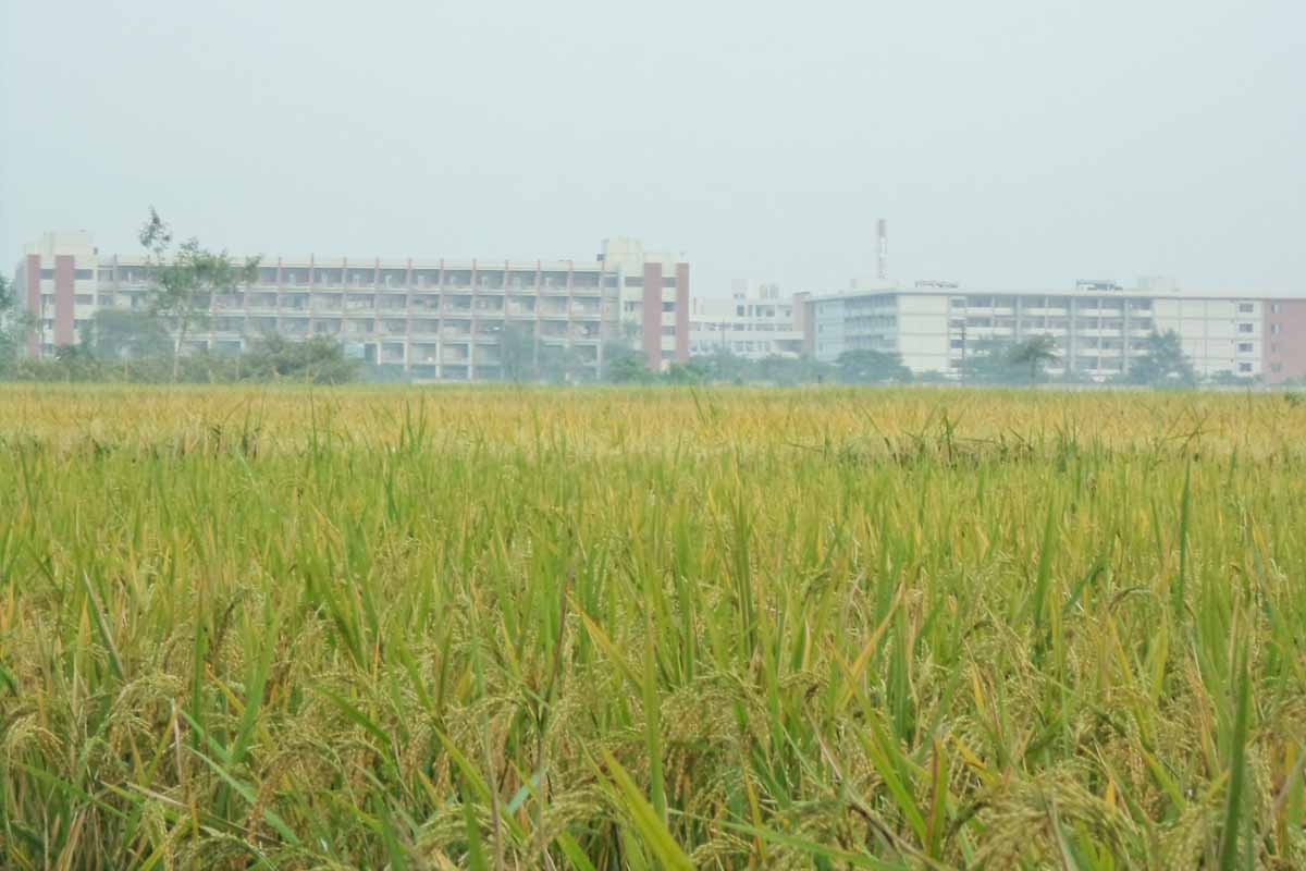 Sorrunding Natural beauty of Jashore University of Science and Technology (JUST). There has so much natural scenaries beside the JUST.